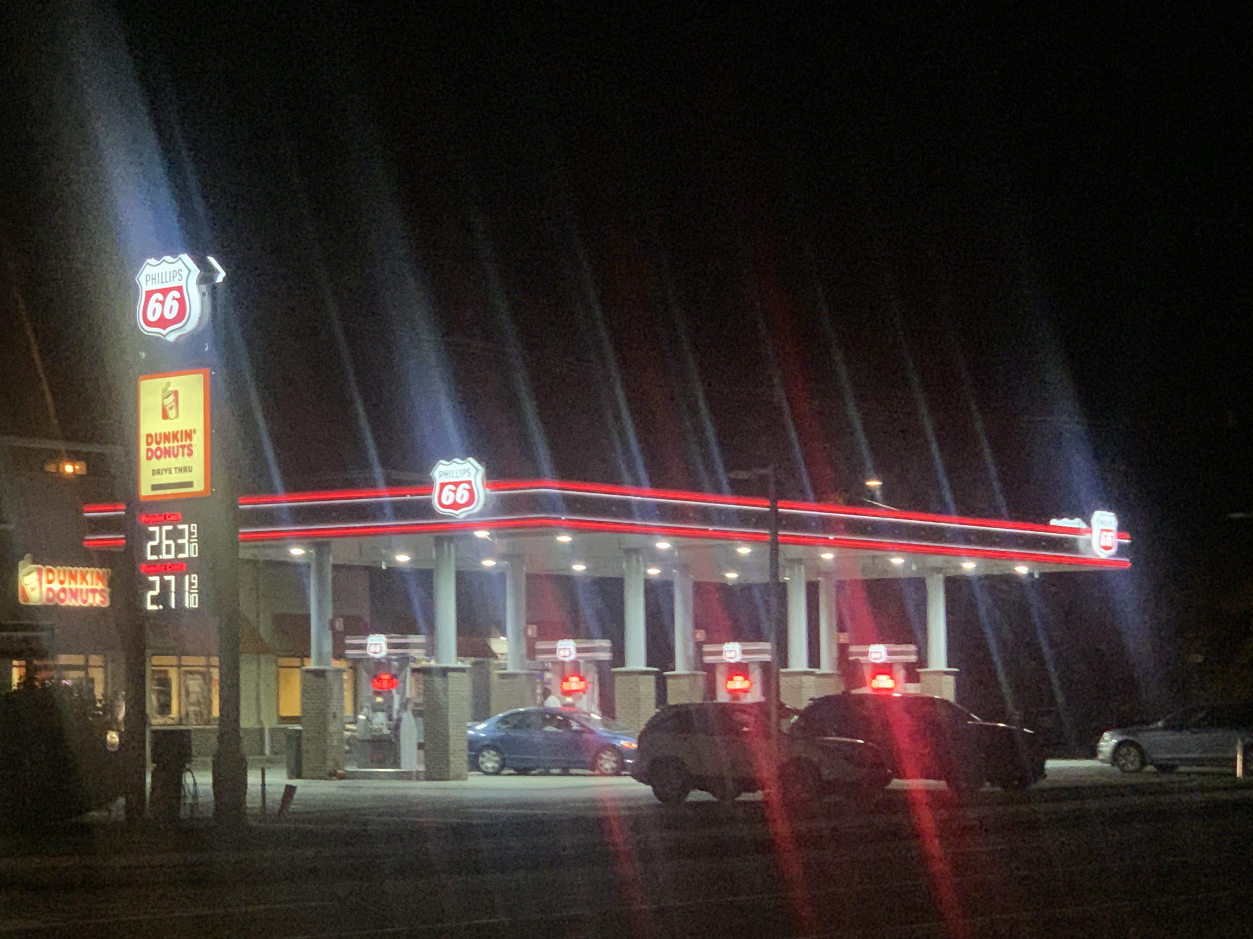 Phillips66 Shield image by Gas Land Petroleum